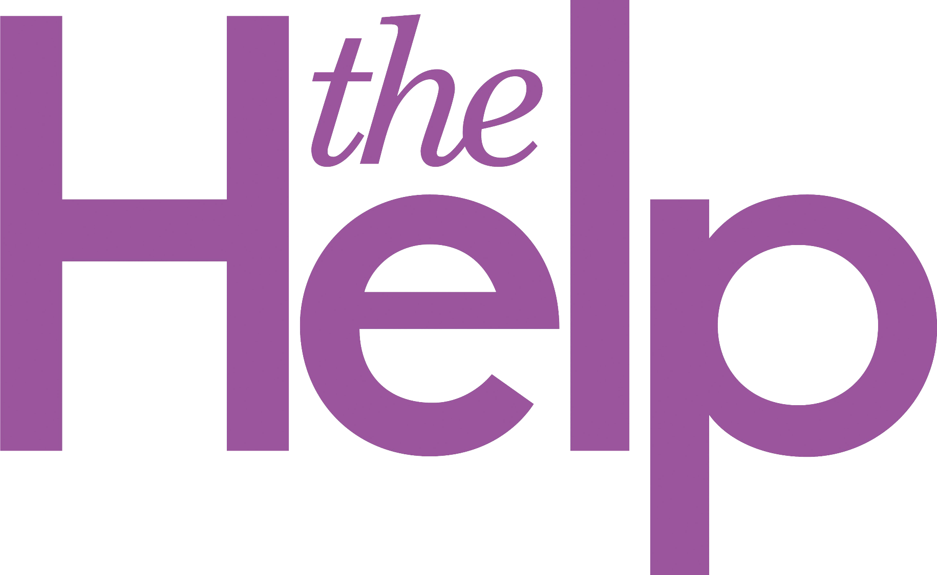 The Help logo